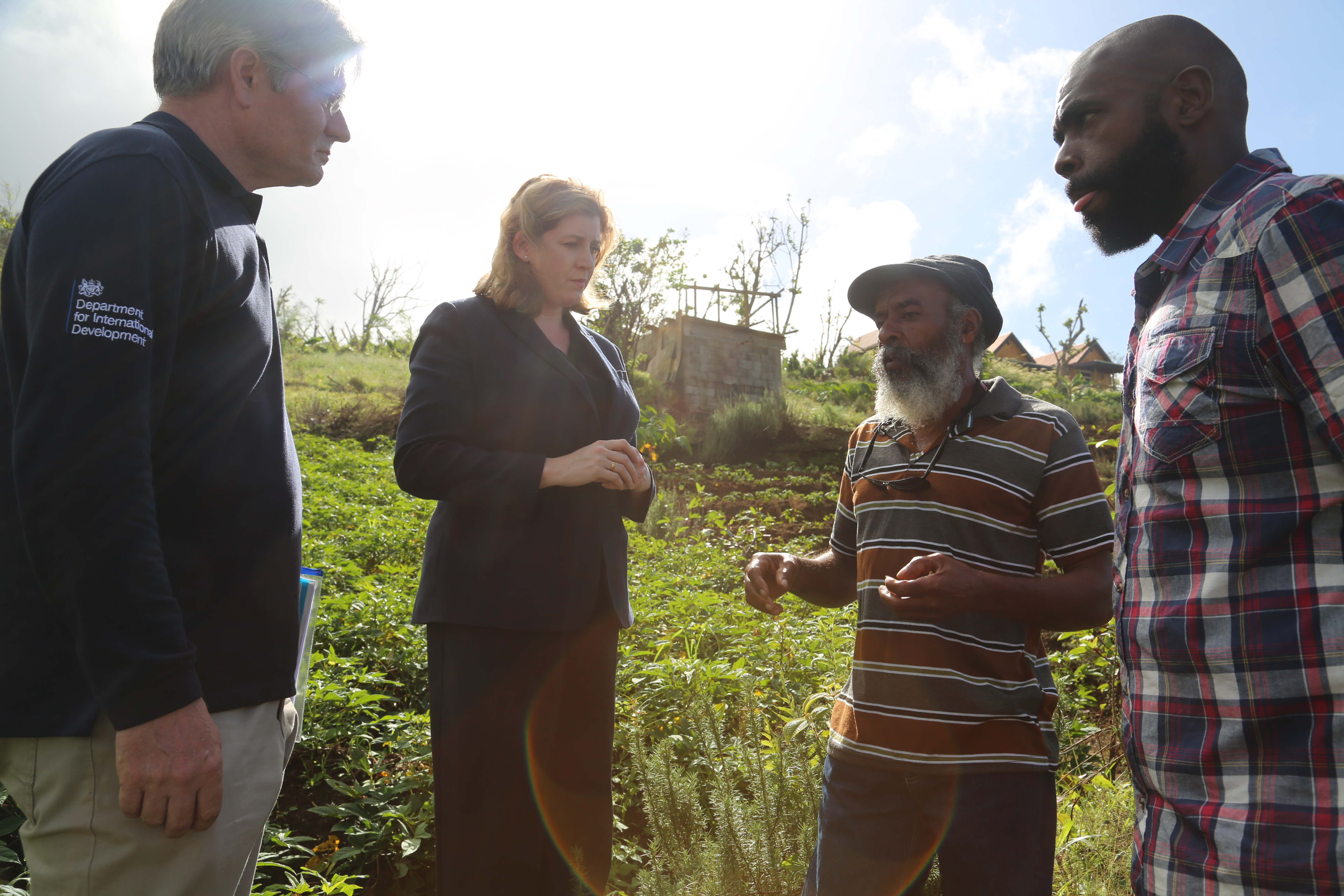 Picture: Tanya Holden/DFID International Development Secretary Penny Mordaunt talks to Bellevue Chopin small holding owner, Gordon. The village of Bellevue Chopin lies at the highest point on the Loubiere to Bagatelle Road (supported by UK aid) at the saddle of two catchment areas. Bellevue Chopin is home to the Bellevue Chopin Organic Farmers Group, established in 2004, offering a broad range of organic farm products and a newly installed composting facility. Hurricane Maria impacted on 100% of the agriculture on Dominica. The UK has provided assistance in the distribution of seeds for short cycle crops and tools targeting 1,000 households, with the first harvest expected before Christmas. The small holding worked is an example of how farmers are working to reinstate their crops following Hurricane Maria.